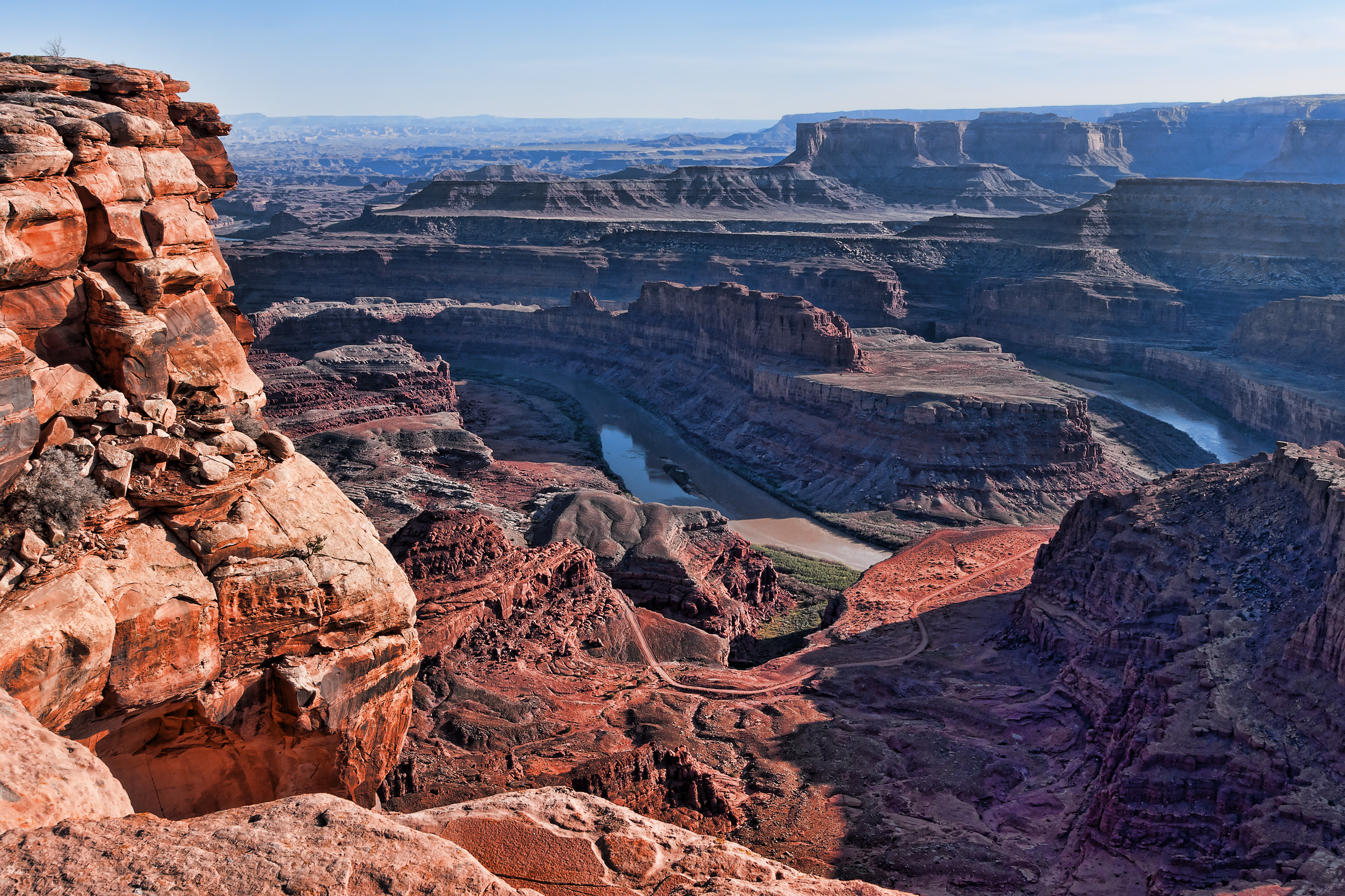 View on Colorado River from Dead Horse Point Overlook in Dead Horse Point State Park in Utah, USA.